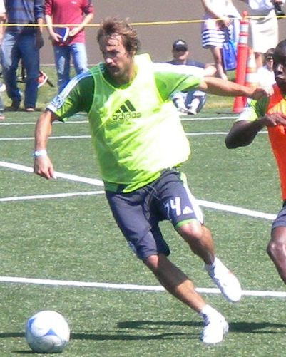 Roger Levesque of the Seattle Sounders in training